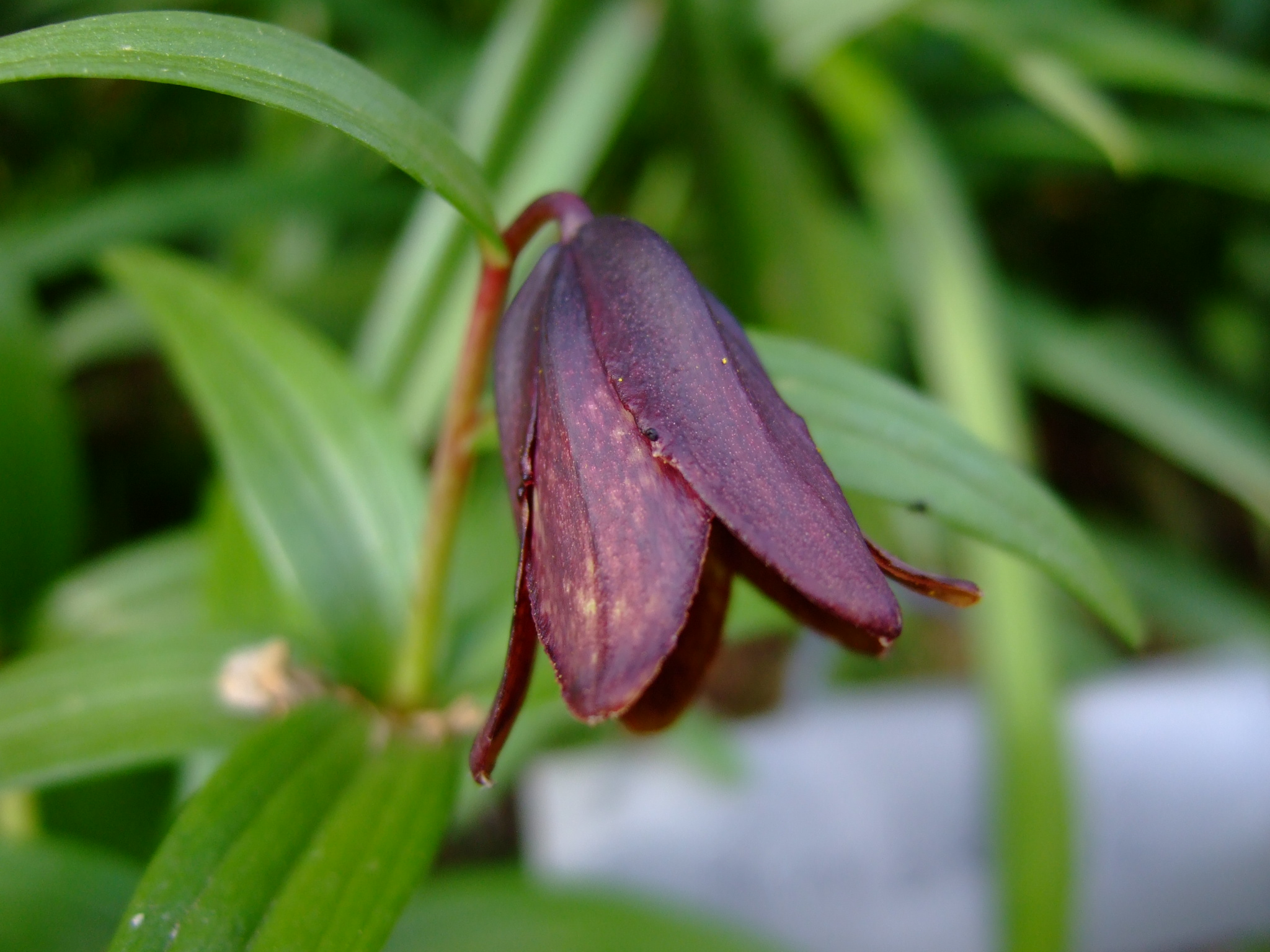 Fritillaria camschatcensis